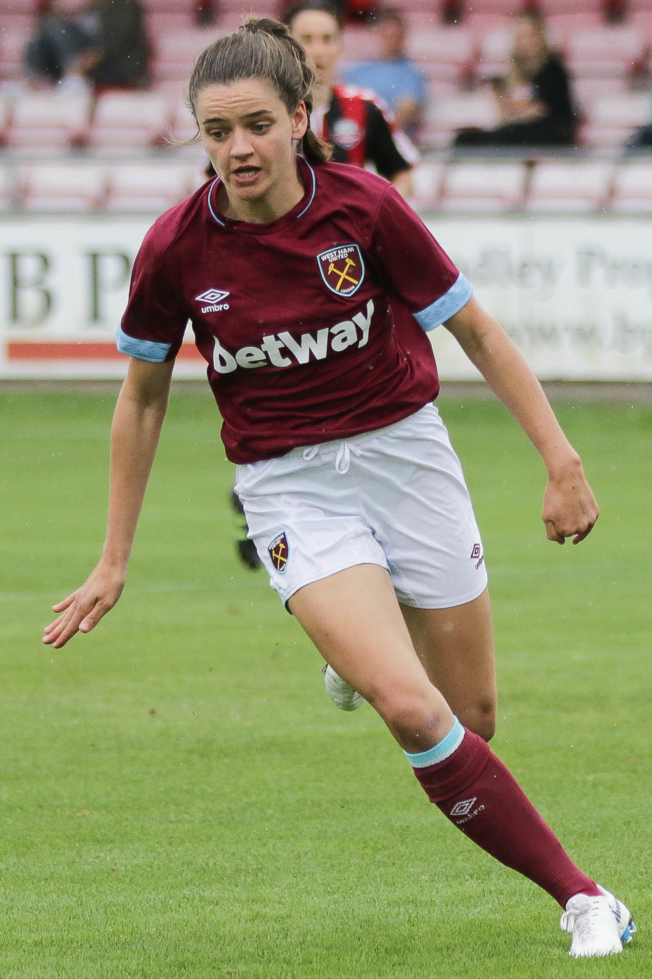 Lewes FC Women 0 West Ham Utd Women 5 pre season 12 08 2018-758.jpg